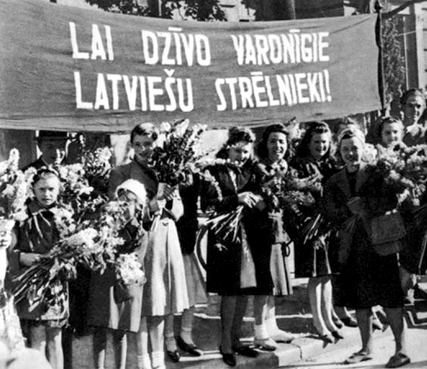 1944-10-16. Rigans welcome the Soviet soldiers of the 130th Latvian Rifle Corps.